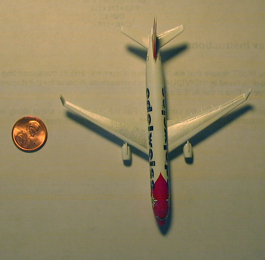 Image adapted from one taken by me for Wikipedia - I love these things